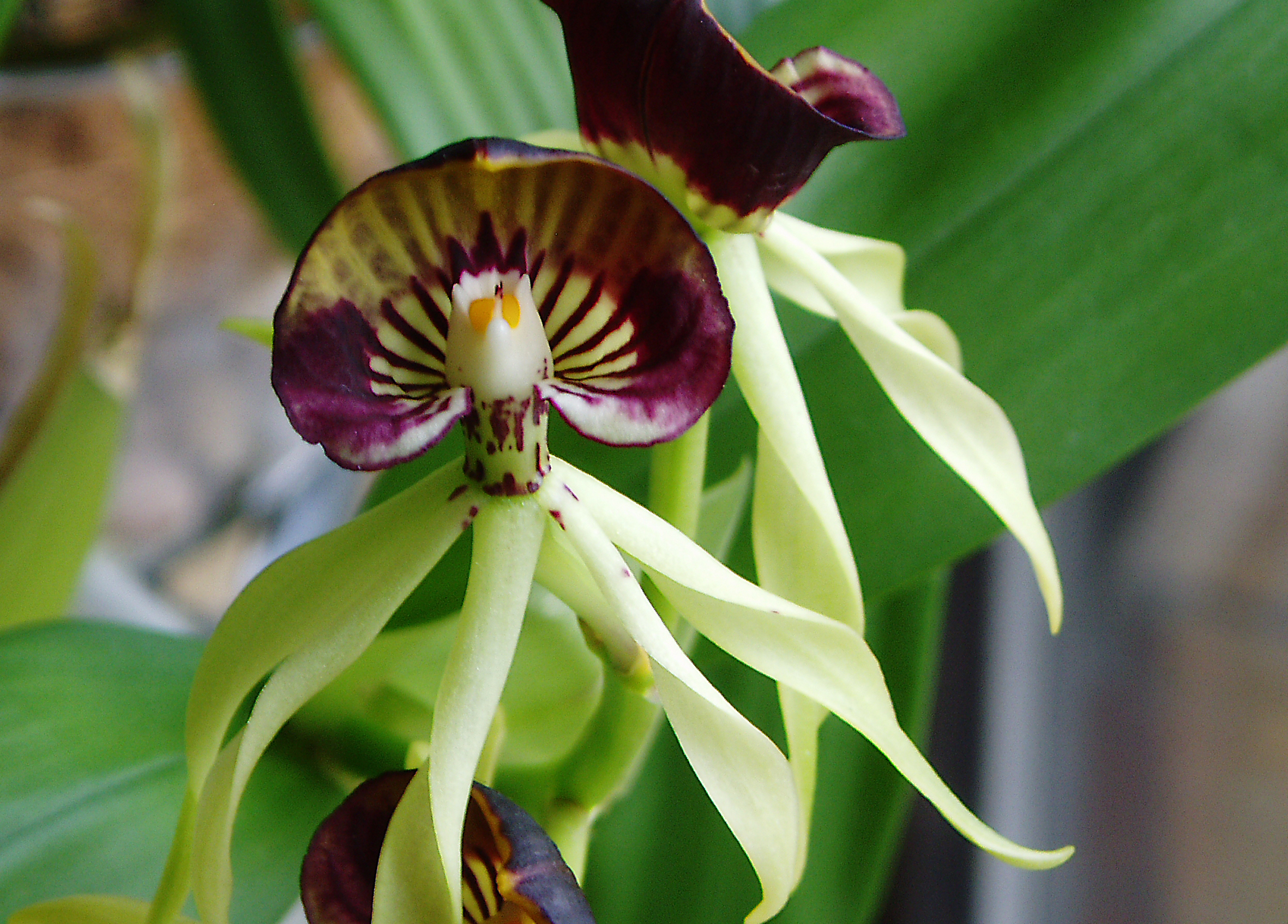 Encyclia cochleata - since 10 years blooming every year. Schon seit 10 Jahren in meinem Besitz blüht diese Encyclia jedes Jahr wieder.